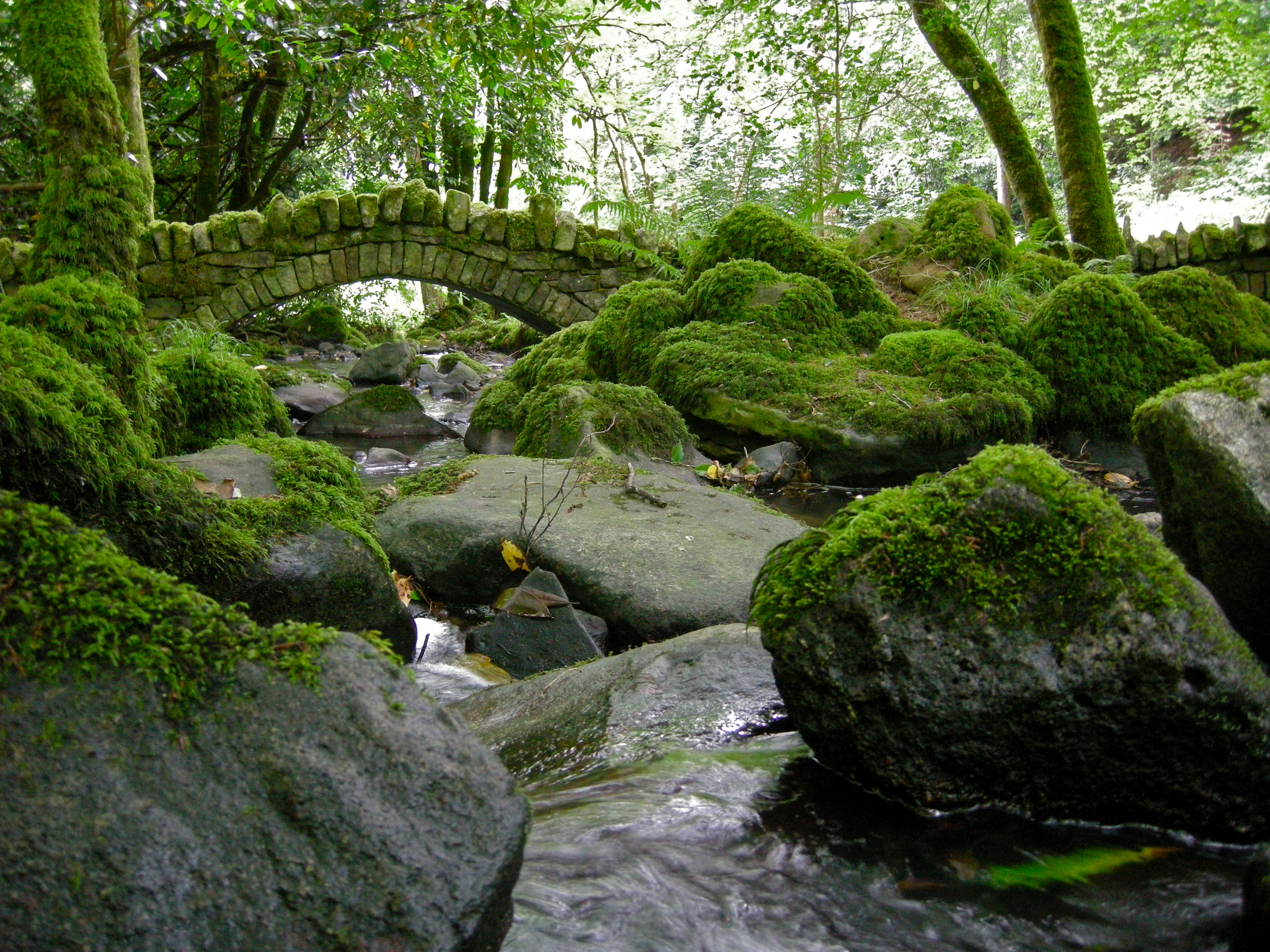 County Kilkenny, Ireland Taken as we explored Kilfane Glen and Waterfall with my cousins Bridget and Sean. This little moss-covered area had an especially enchanted feel to it.